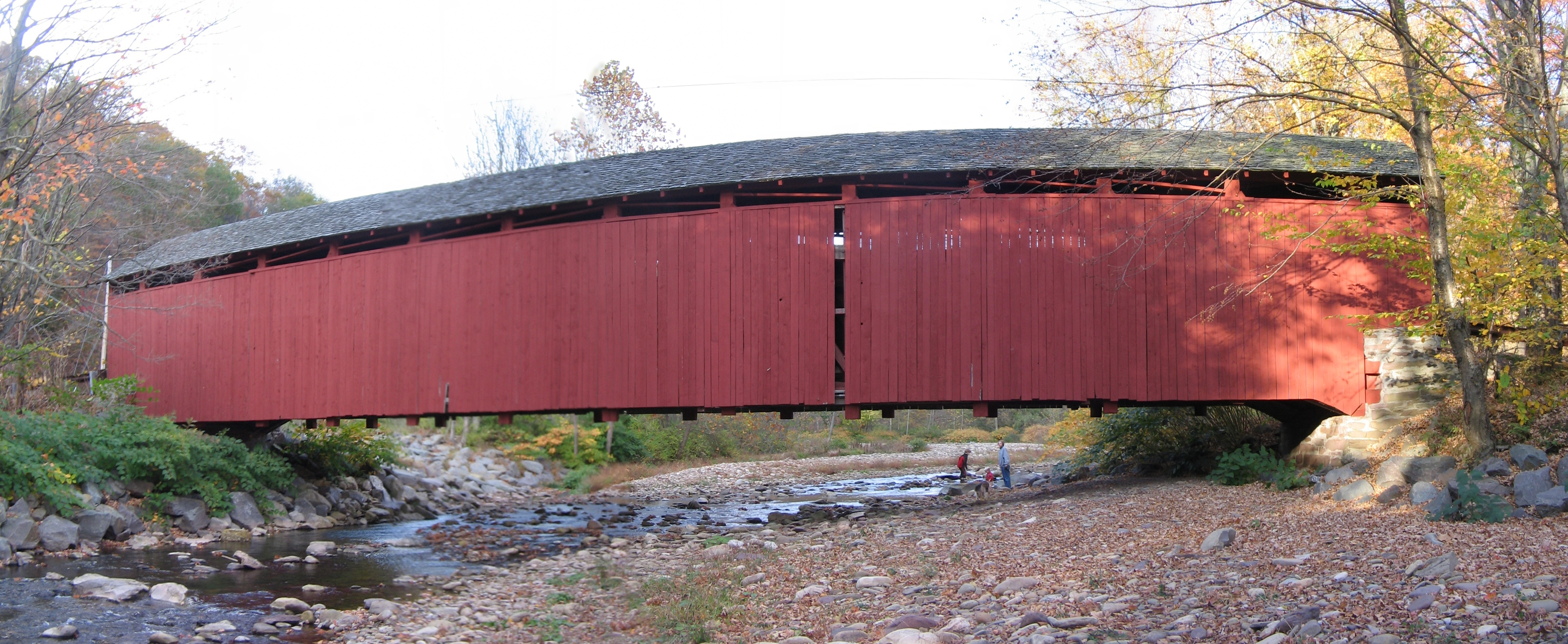 Panorama of the south side of Sonestown Covered Bridge over Muncy Creek in Davidson Township, Sullivan County, Pennsylvania in the United States. Built 1850, on the National Register of Historic Places.